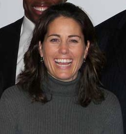 Retired soccer player Julie Foudy at a U.S. Congress event promoting physical fitness This file has been extracted from another file: Zach Wamp and athletes.jpg